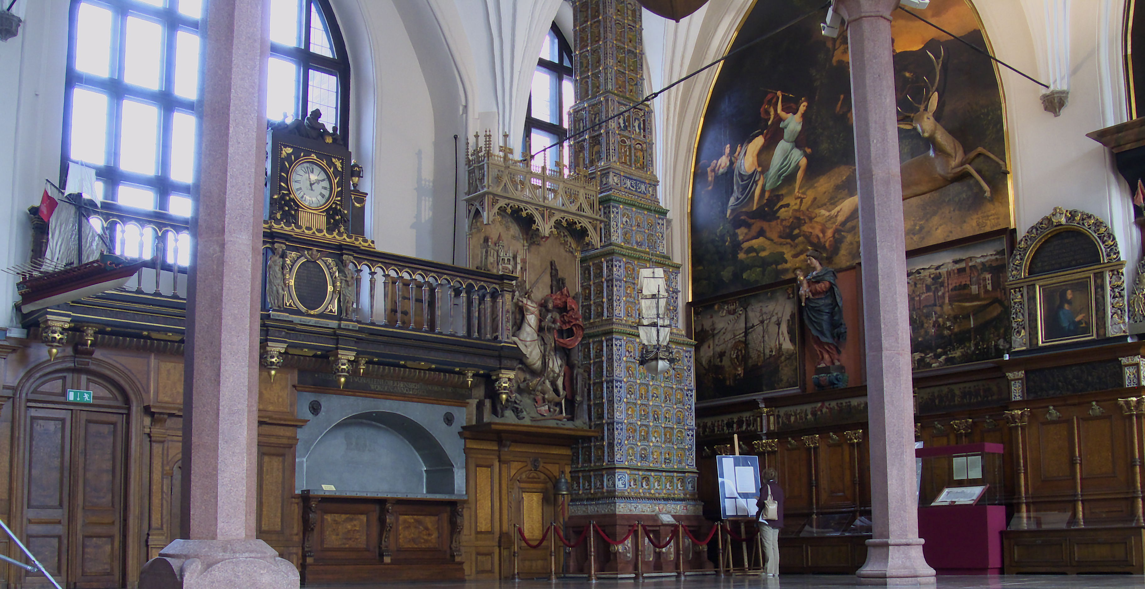 Interior of Mansion of Artus